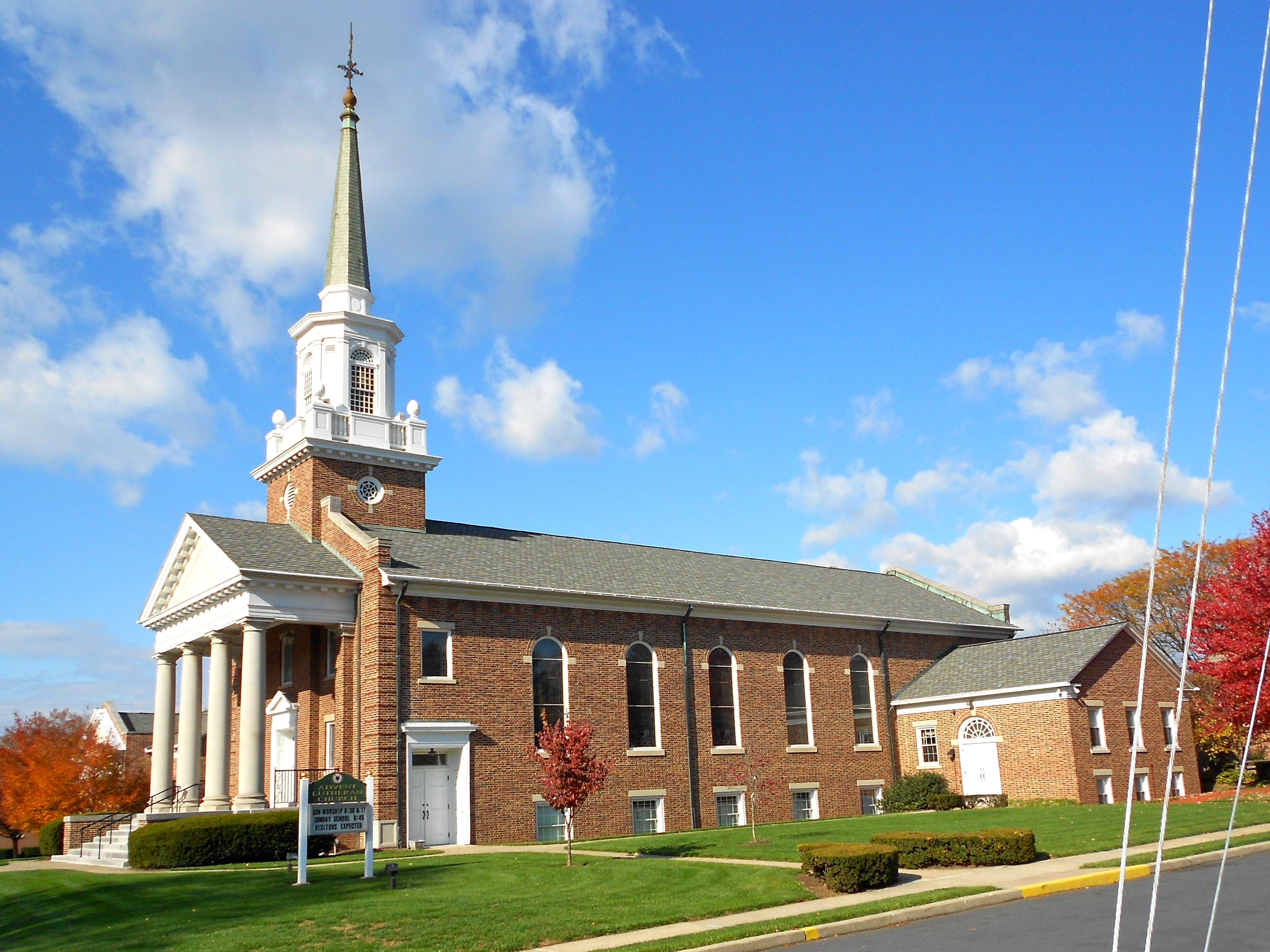 Advent Lutheran Church in the East York Historic District listed on the NRHP on March 12, 1999. The district is bounded by Oxford Street, Wallace Street, Royal Street, and Eastern Boulevard, in Springettsbury Township, just east of the city of York, in york County, Pennsylvania